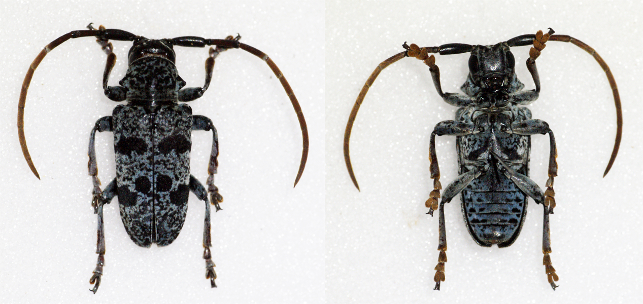 Chevrolat,1855 Sex: Male Data: 04-2013 - Ebogo - Cameroon Size: ?